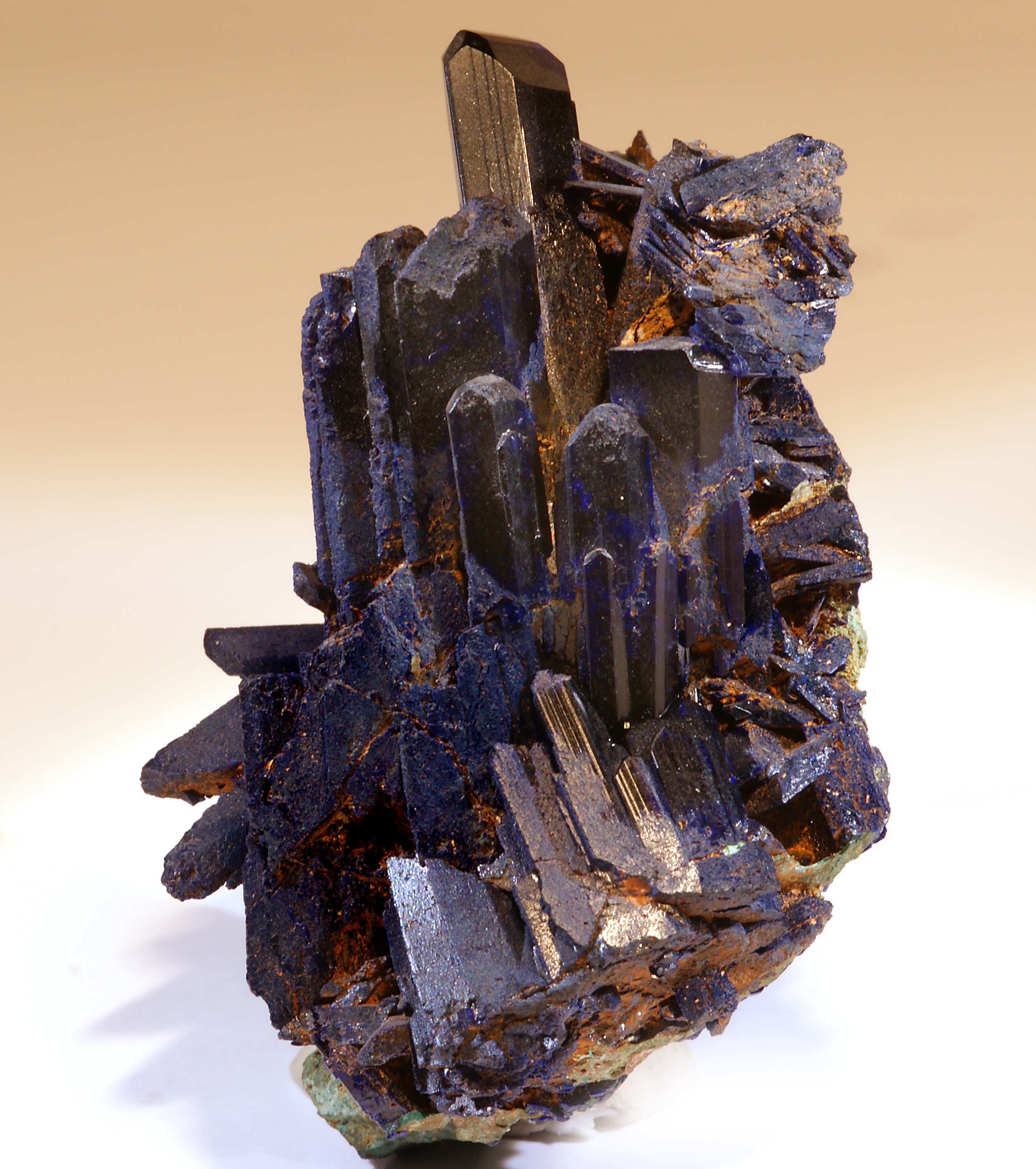 Azurite Locality : Zelidja Mine (Zellidja Mine),Touissit, Touissit District, Oujda-Angad Province, Oriental Region, Morocco Size : 6,6x3,8cm